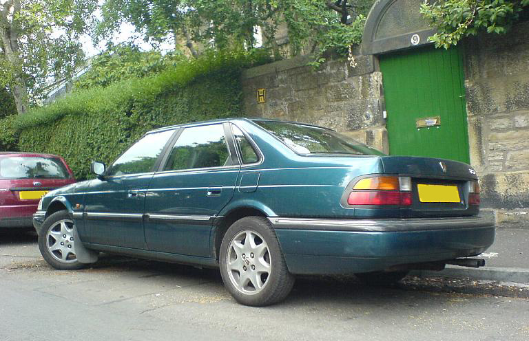 Rover 825SD 1995 (UK specification)